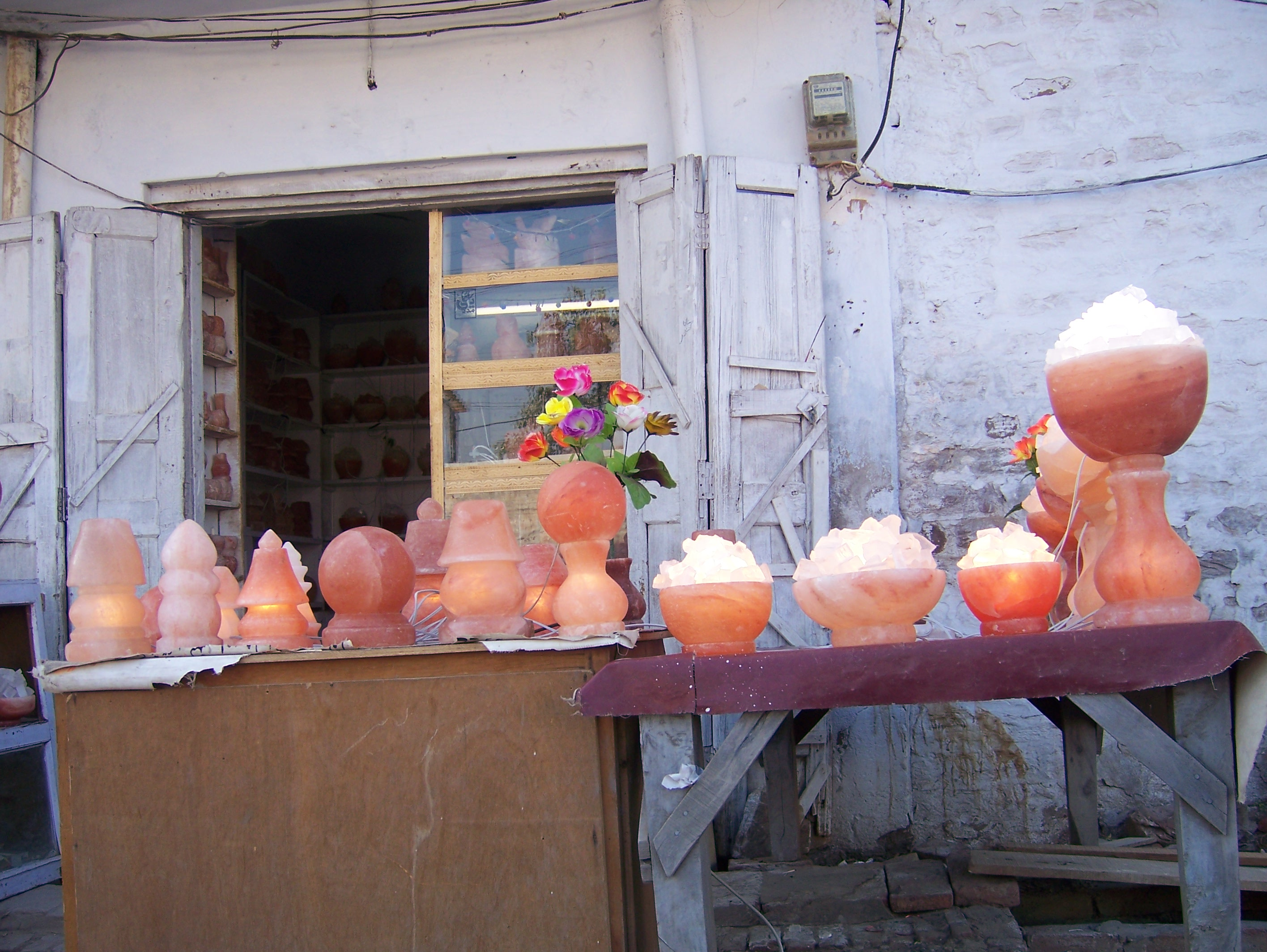 Lamps made of Salt in Khewra, Pakistan.